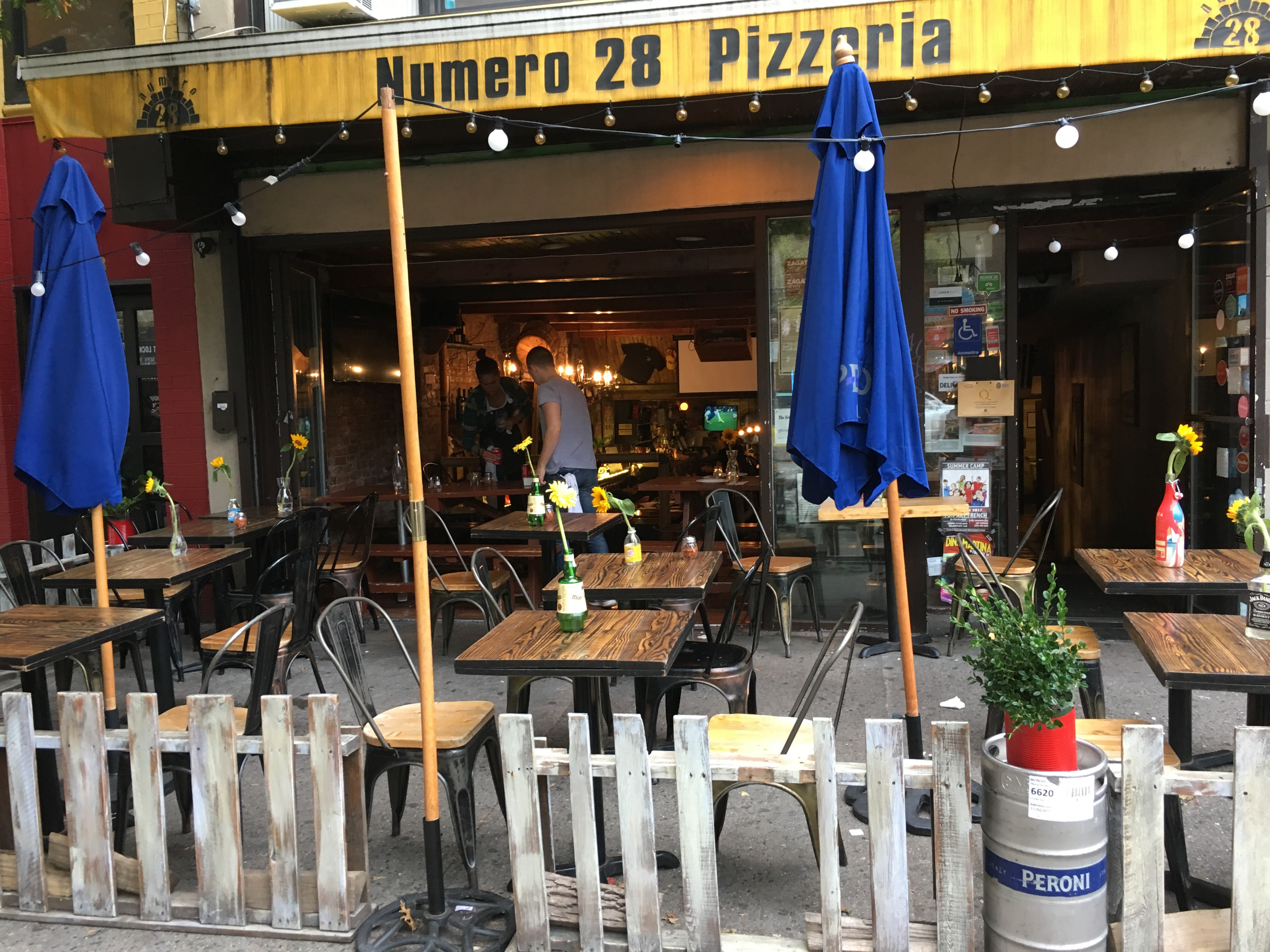 This is an image of the Numero 28 pizzaria in East Village storefront.